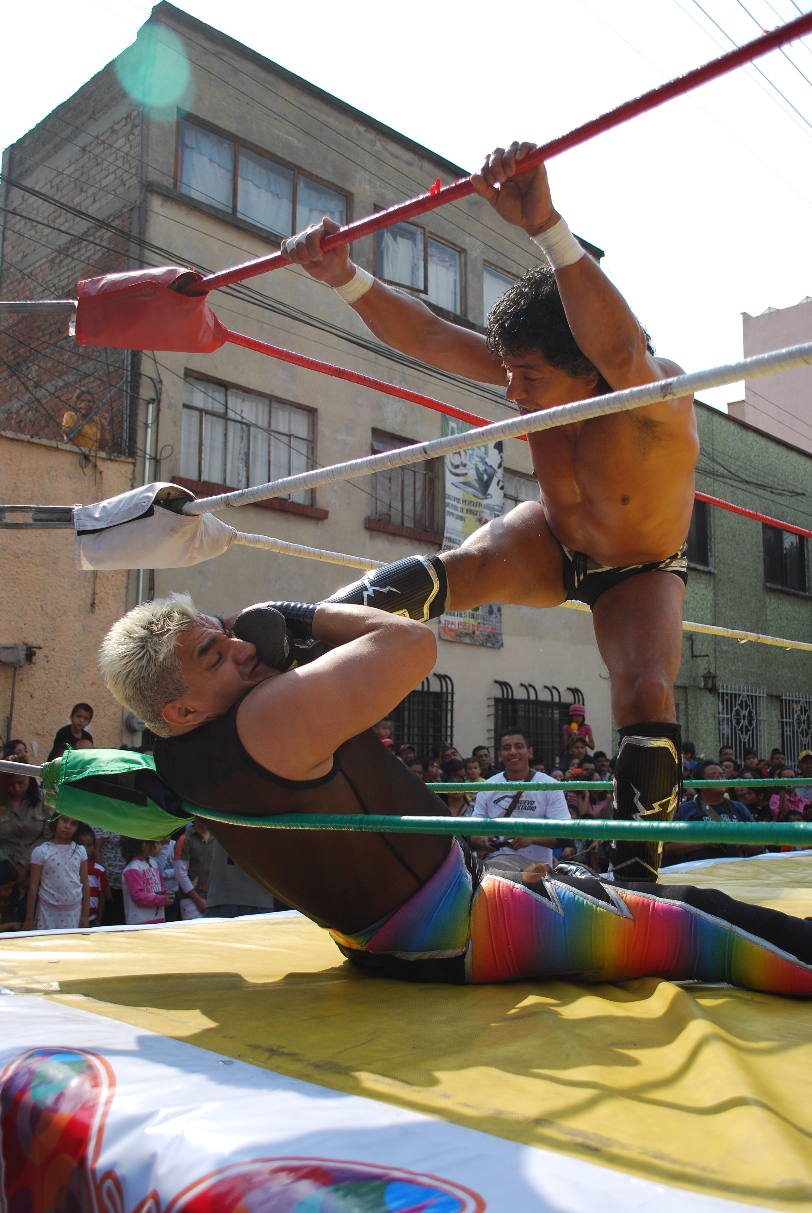 Negro Casas at the last match at a CMLL lucha libre event part of Festival Día de Reyes Territorial Obrera Doctores in Mexico City